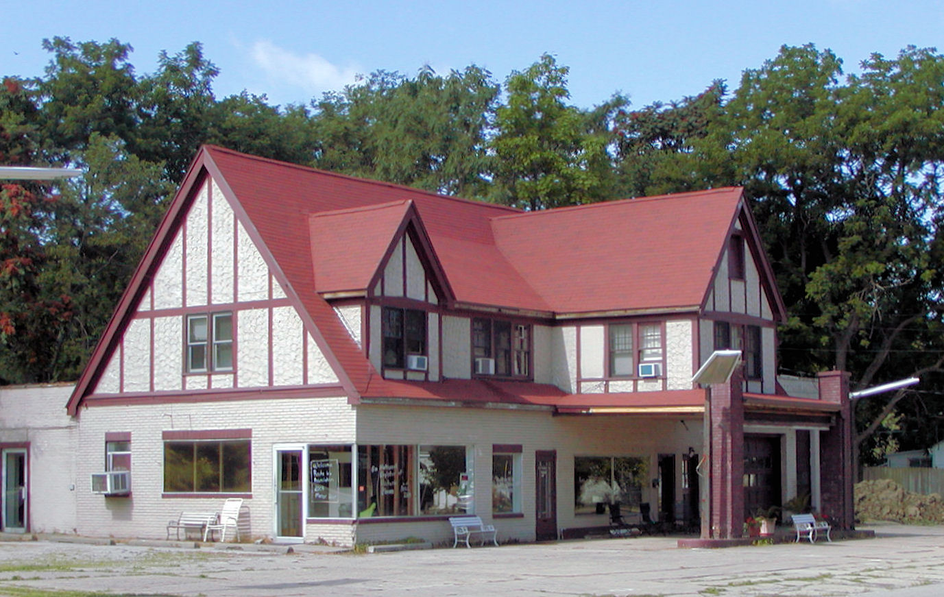 Sprague's Super Service in Normal, Illinois on Route 66.